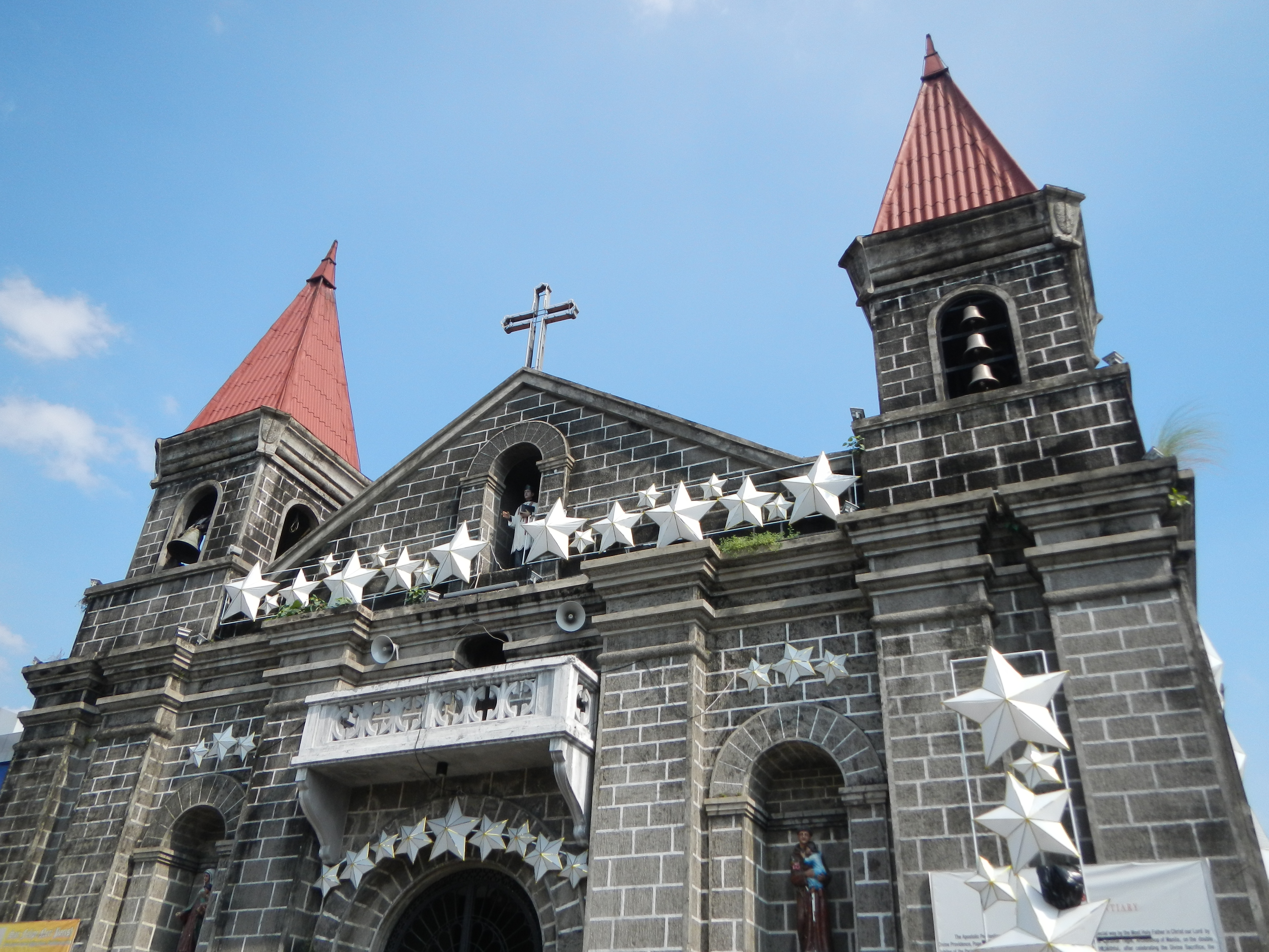 Upload Wizard photos of -- (general description of landmarks, town, church) - Mandaluyong[1] City - Located at Boni Avenue, Mandaluyong City.[2] San Felipe Neri Parish Church of Mandaluyong City - Boni Ave. cor. Aglipay St., Mandaluyong City Parish Priest: Msgr. Mario D. Enriquez Parochial Vicar: Fr. Herbert John B. Camacho Established: 1863 District: Makati Vicariate: San Felipe Neri Vicar Forane: Fr. Wilmer R. Rosario Feastday: December 8 and May 26 Titular: San Felipe Neri Immediate Preceding Parish Priest: Msgr. Reynaldo Y. Celso, 3/2000–2/2001 - List of religious buildings in Metro Manila [3] just beside the - San Felipe Neri Parochial School Mandaluyong City Philippines National Capital Region Mandaluyong City A.T. Reyes St., Brgy. Poblacion Mandaluyong City, 85 [4] Coordinates: 14°35'10"N 121°1'36"E.